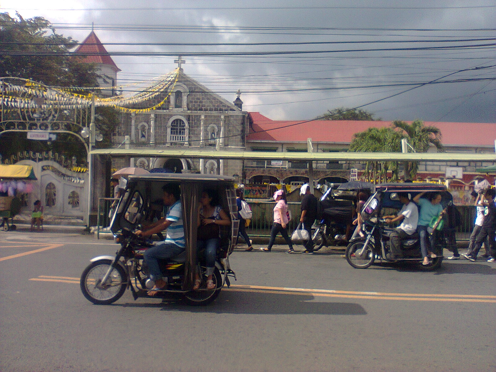 Street scene in Indang town proper, with the Church of St. Gregory visible. The vehicle seen foreground is a tricycle.